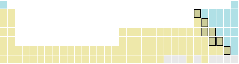 Periodic table (32 columns), colored by metal, metalloid, nonmetal. As currently categorized on enwiki.